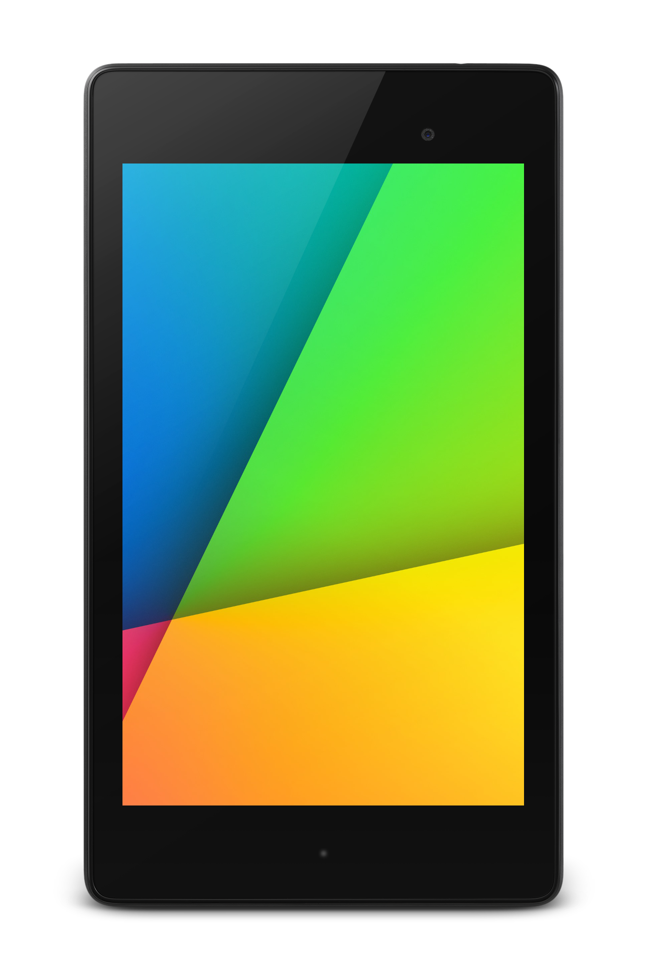 Photo of the Nexus 7 2013, which is released under CC 2.5 Attribution. Portions of this page are reproduced from work created and shared by the Android Open Source Project and used according to terms described in the Creative Commons 2.5 Attribution License. [1].